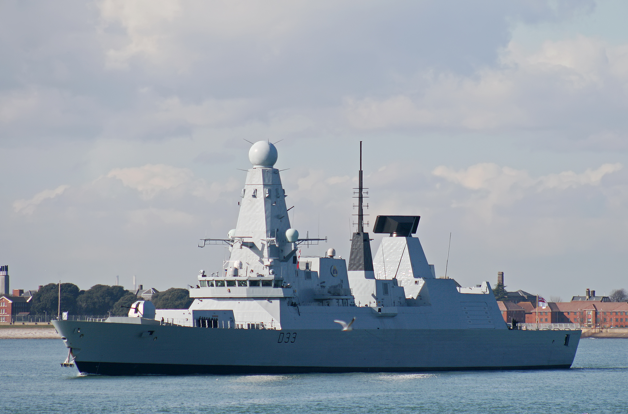 HMS Dauntless (D33), the second ship of class, a stealth design of area defence Type 45 anti-aircraft destroyer of the Royal Navy, outward bound from Portsmouth Naval Base, UK. Image uploaded by me User:George.Hutchinson from a photograph taken by and supplied by Brian Burnell. Wikipedia editors are reminded that the copyright remains with the photographer, and that the terms of the Creative Commons licence; that allow editors to reuse this image apply to Wikipedia editors also, as they do to other re-users of this image. Breaches of the licence terms are not only unlawful, but are also antisocial, in that breaches discourage photographers from making their images freely available to everyone without payment. Wikipedia re-users are also reminded of the license terms that derivatives of this image should not imply that the adaptation is endorsed or approved by the author or copyright holder. Neither should derivatives be presented as the creation of the author or copyright holder, while clearly stating that the adaptation is a derivative of the original. Attribution online should be in this format Brian Burnell. On the printed page, a simpler form is acceptable - example: "Image: Brian Burnell". Non-Wikipedia users are requested to advise Brian Burnell of its use other than on Wikipedia.